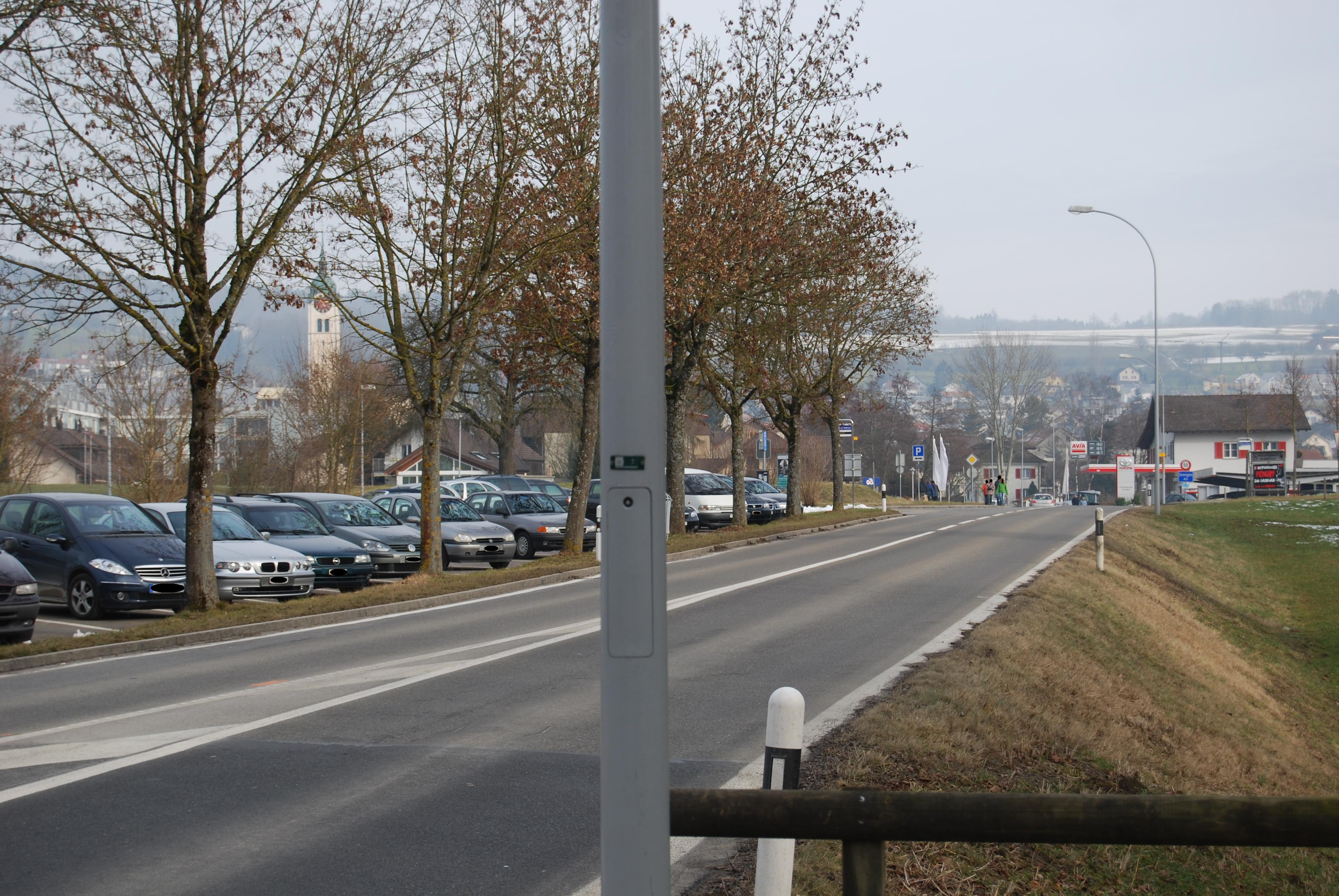 Seengen, canton of Aargau, SwitzerlandEsperanto: Seengen, Kantono Argovio, Svislando